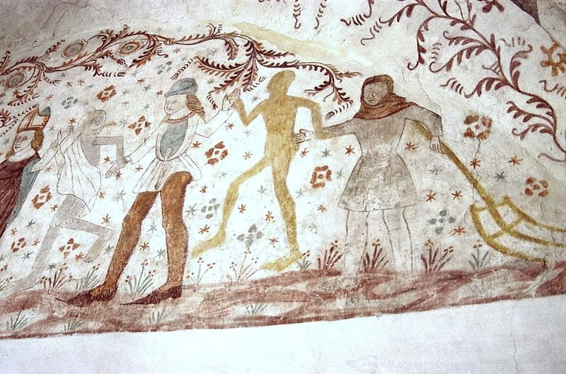 Frescos of the Master of Elmelunde, 14th century. Dance Macabre in Nørre Alslev church.